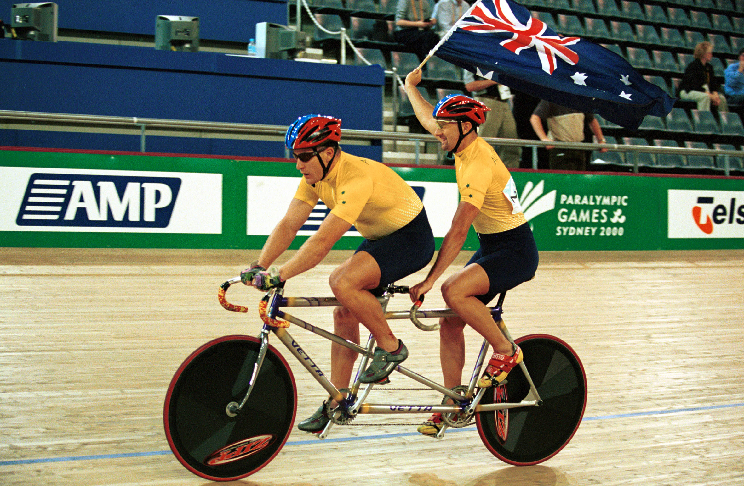 Australian track cyclists Darren Harry and Paul Clohessy waving the Australian flag after winning gold at the 2000 Sydney Paralympic Games Men's Tandem Sprint Open